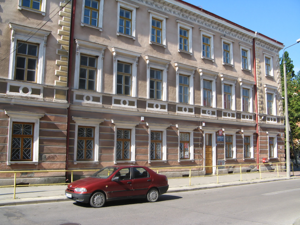 Północno-Mazowieckie Museum in Łomża, Poland.